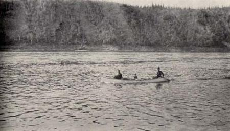 Fathers Le Roux and Rouviere on their journey up the Bear River. v. 1910s